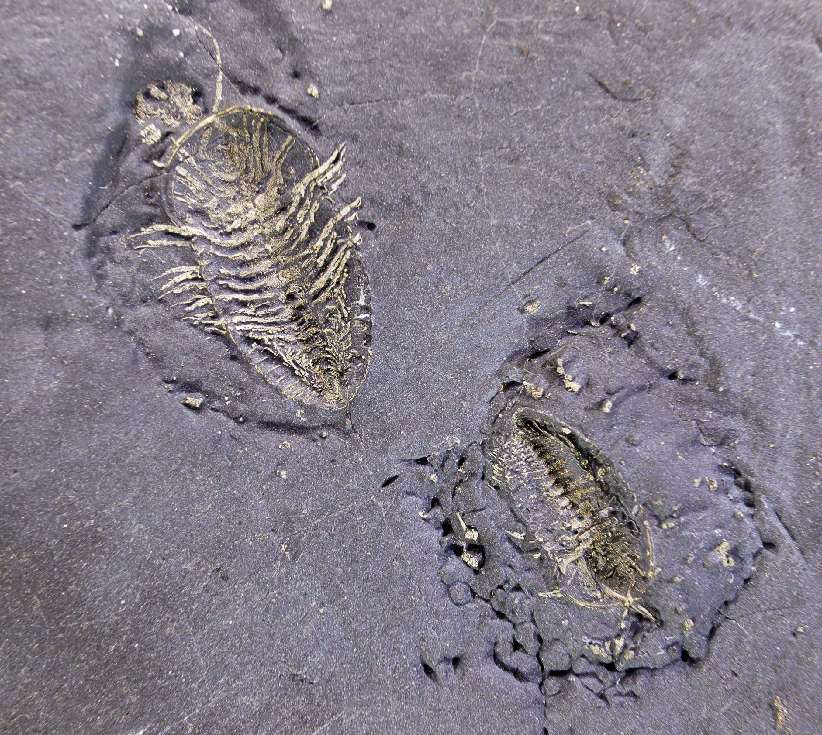 Triarthrus eatoni - ventral side Stage : Late Ordovician (460,9 ± 1,6 to 443,7 ± 1,5 Ma) - Frankfort Shale Locality : Sixmile Creek in Cleveland's Glen, near Rome, Oneida Co., New York, USA Size of view 3.37cm